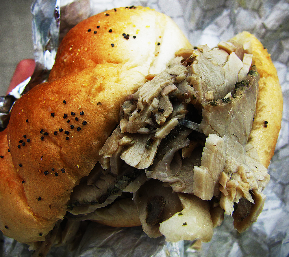 A porchetta sandwich from La Festa Italiana in Scranton, PA.